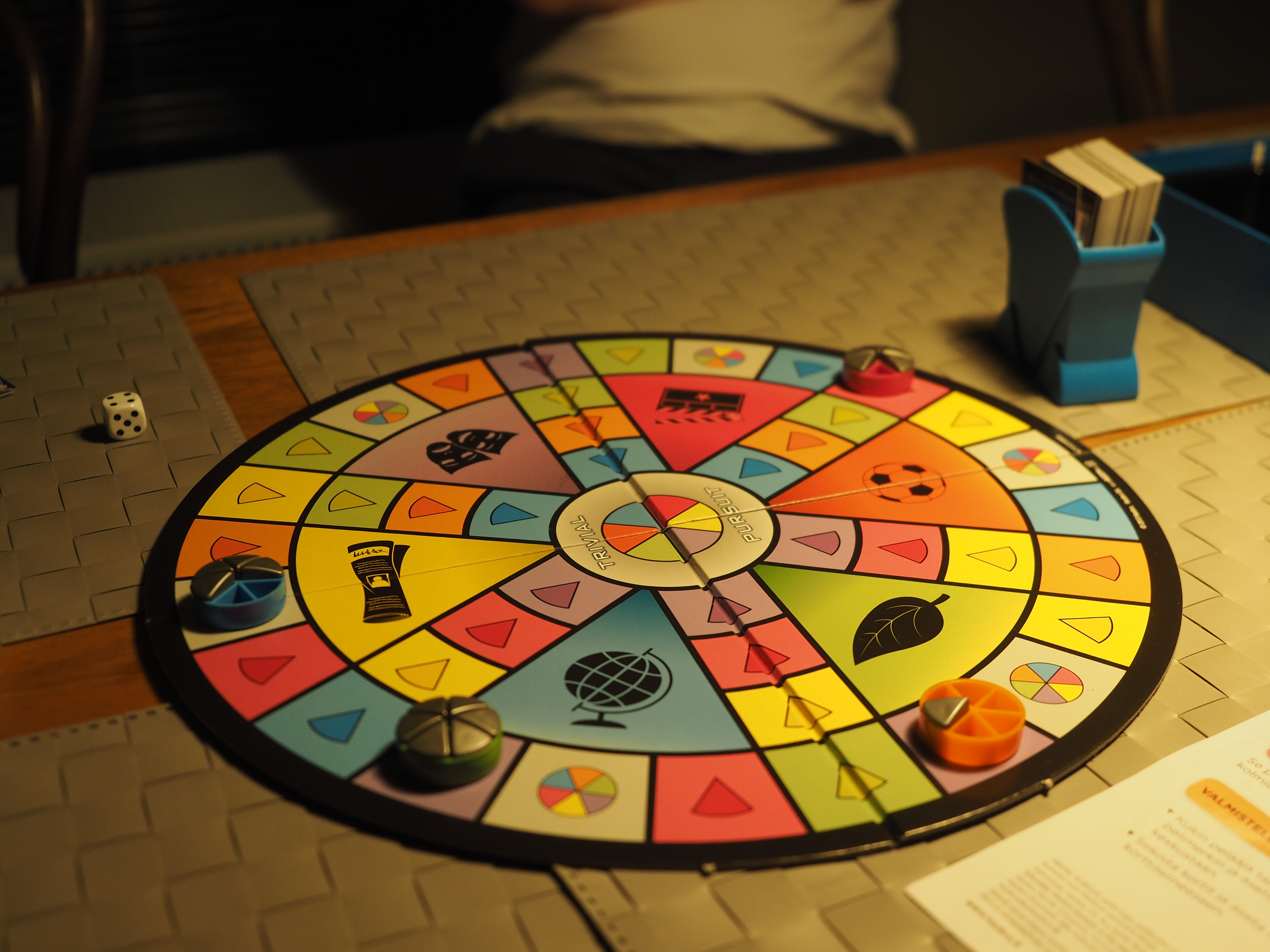 A four-player game of Trivial Pursuit Party at the end of play, played at a summer cabin in Lohja, Finland.